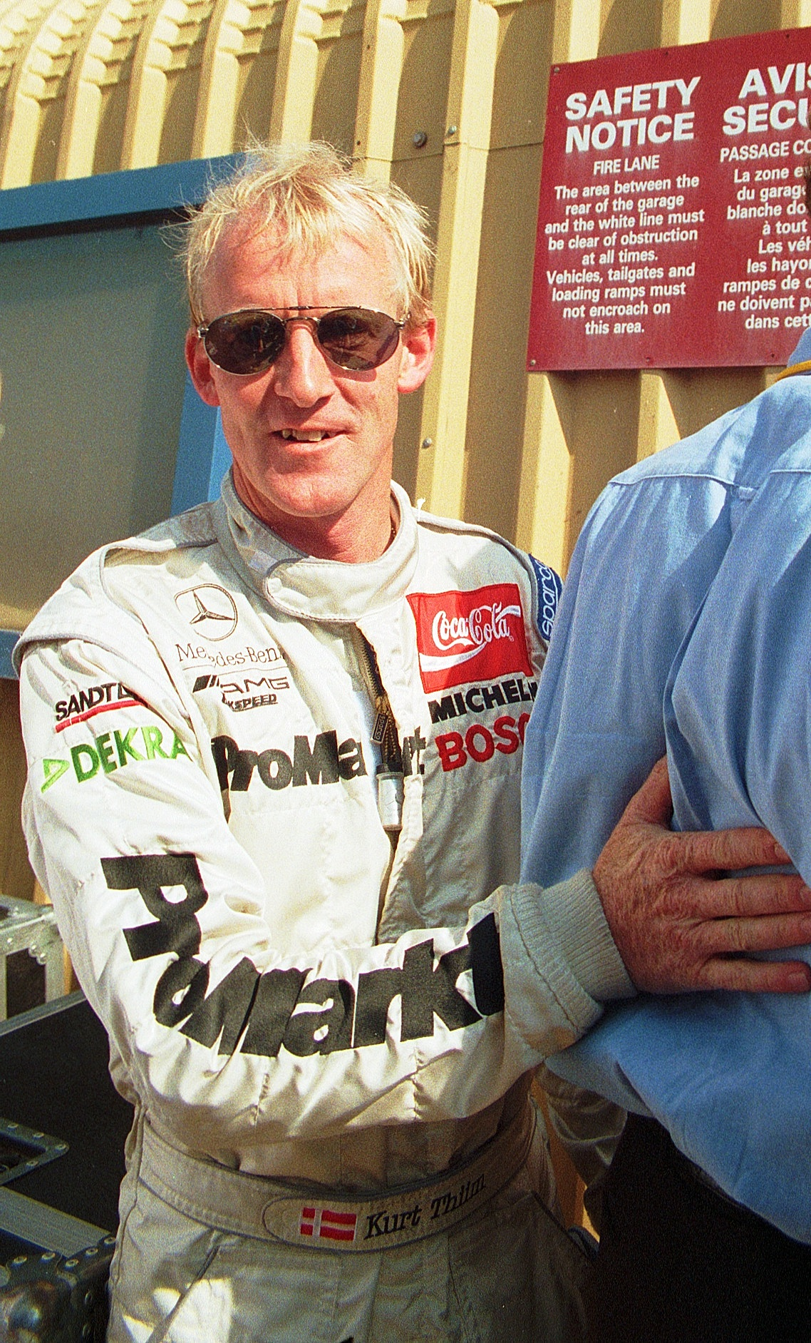 Kurt Thiim - Mercedes C-Class V6 in the paddock at Donington 1995